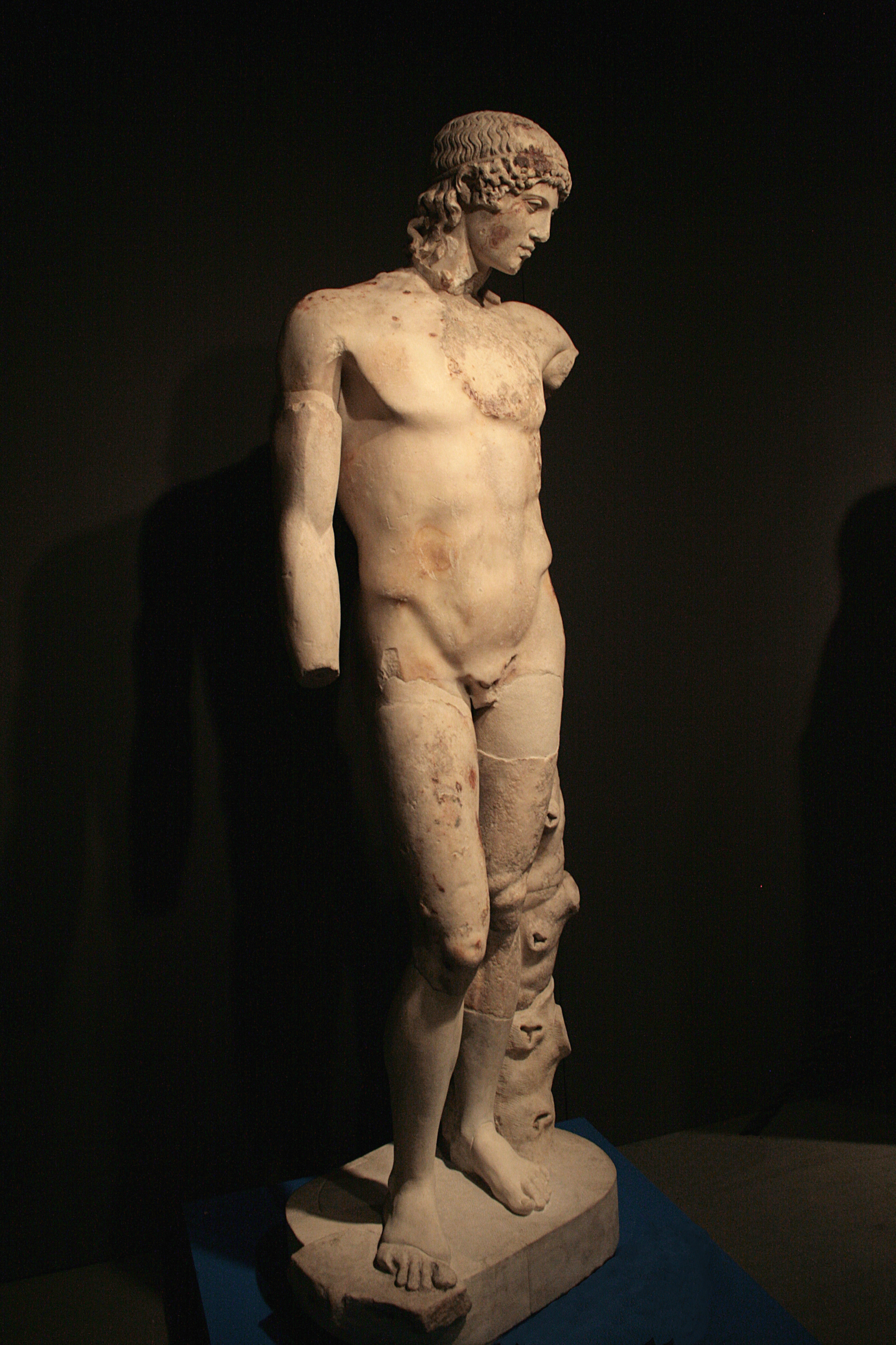 So-called “Tiber Apollo”. Marble, Roman copy after a Greek original dated ca. 450 BC, reign of Hadrian or Antoninus (117–195 CE).